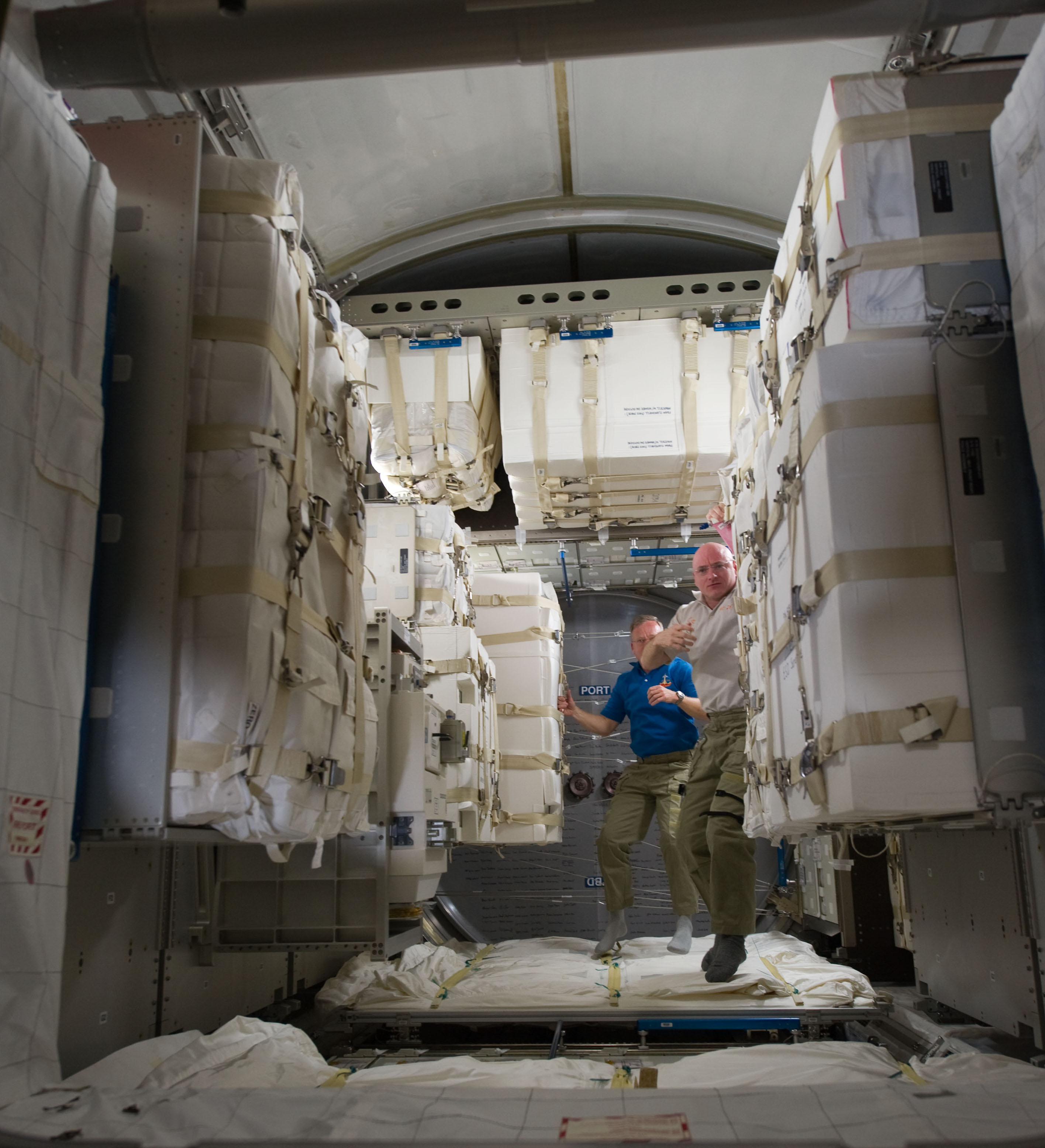 S133-E-007872 (1 March 2011) --- NASA astronauts Scott Kelly (foreground), Expedition 26 commander; and Steve Lindsey, STS-133 commander, are pictured in the newly-installed Permanent Multipurpose Module (PMM) of the International Space Station while space shuttle Discovery remains docked with the station.